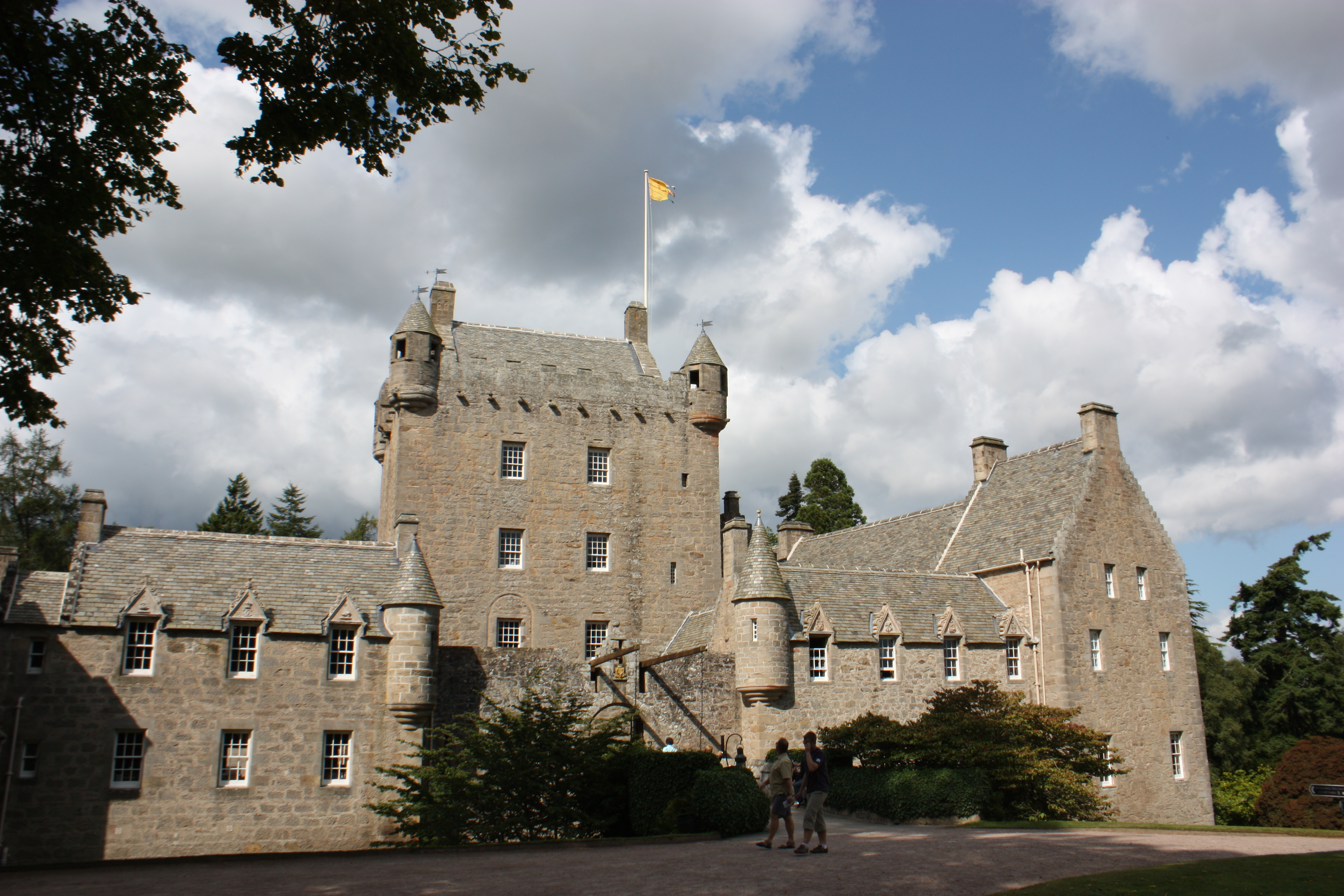 Cawdor Castle in the Scottish Highland, UK.